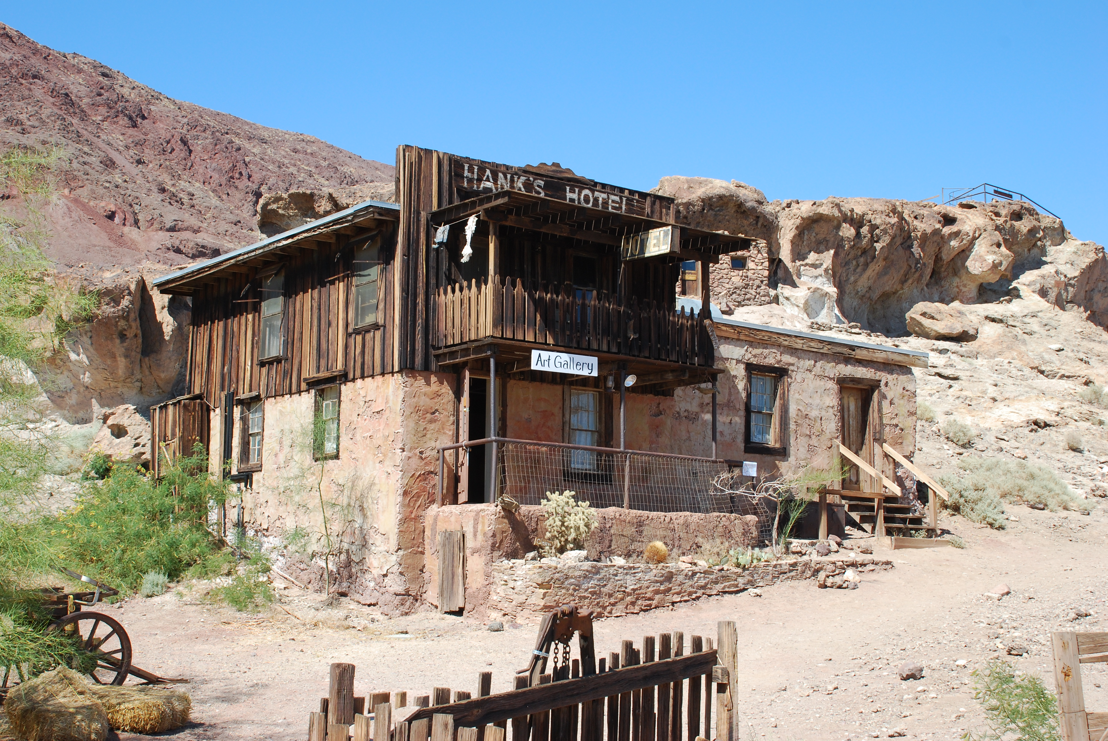 Hank's Hotel at Calico Ghost Town, California, USA